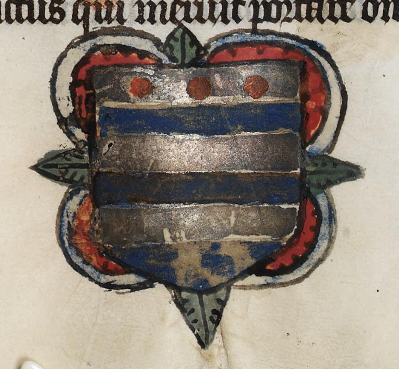 A medieval Book of Hours probably written for the De Grey family of Ruthin c.1390